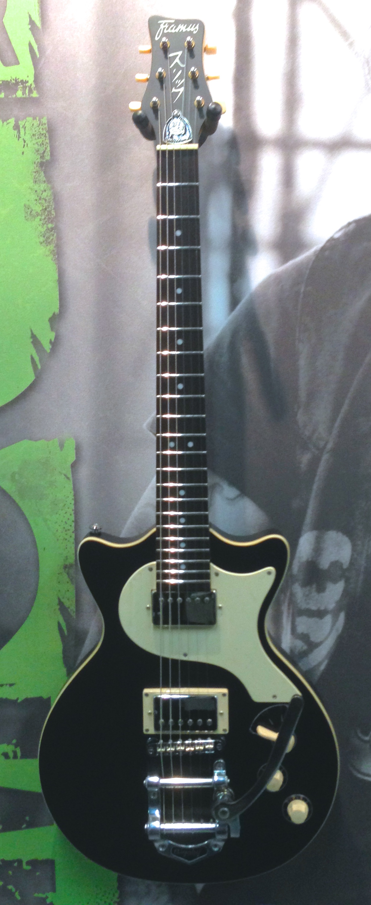 Framus Earl Slick model, picture taken at Anaheim Namm show January 2013; Framus